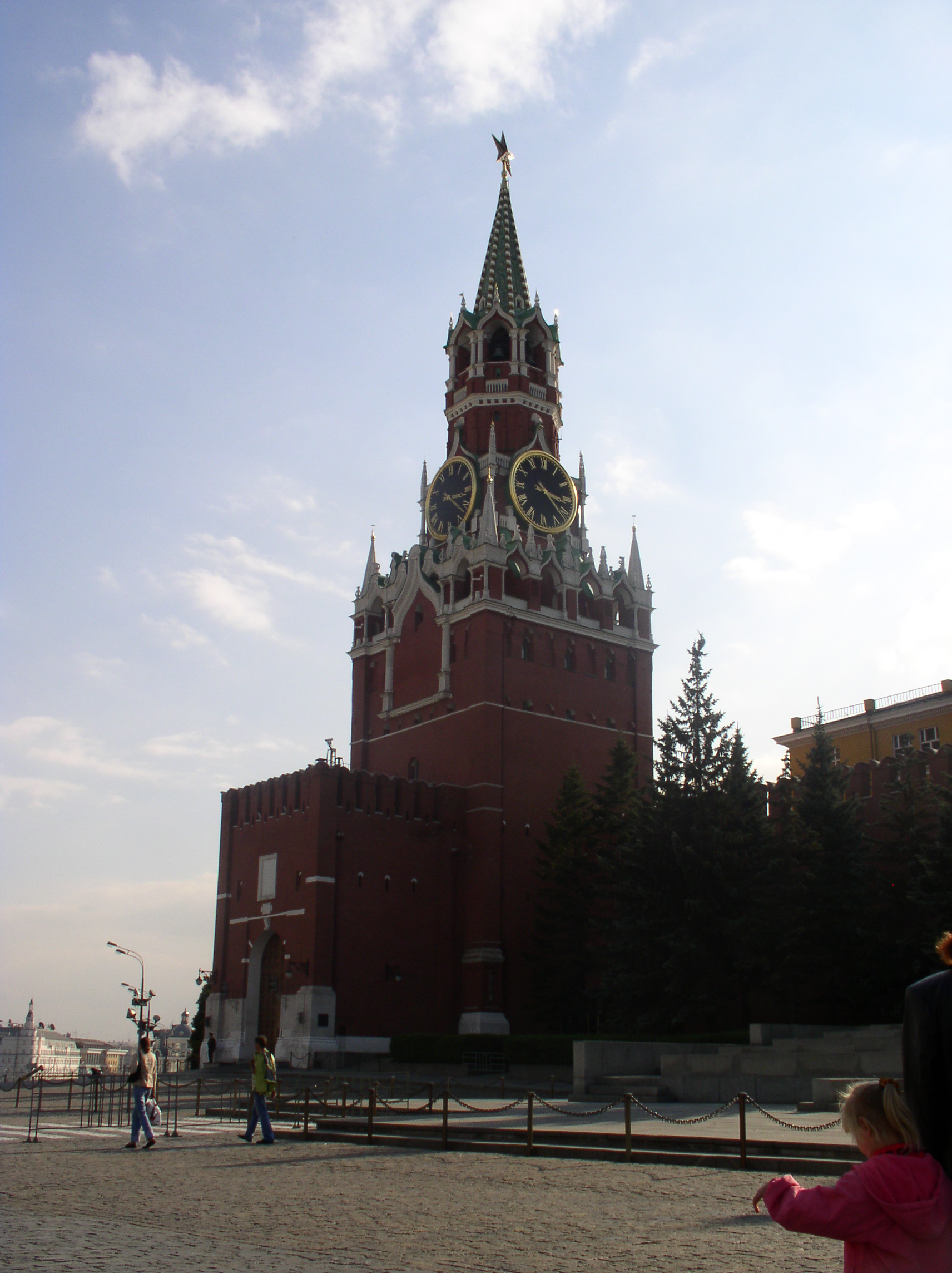 Saviour tower of Moscow Kremlin. Moscow, Russia.